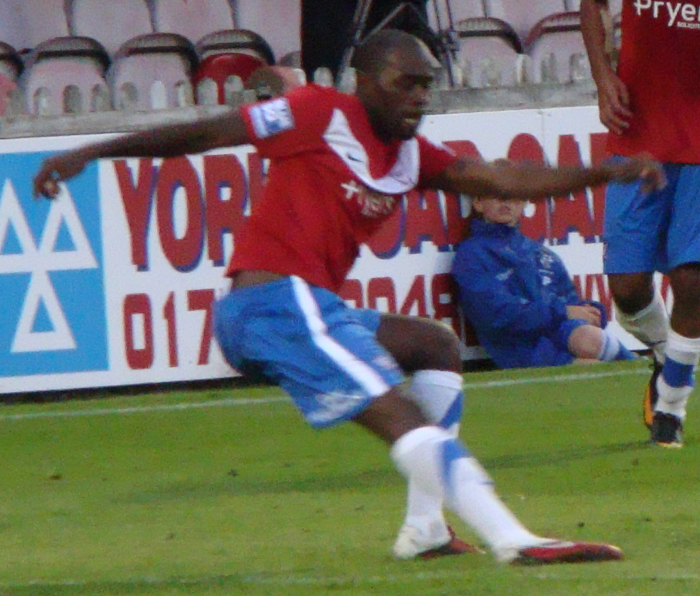 Jamal Fyfield. Image cropped from original at flickr.